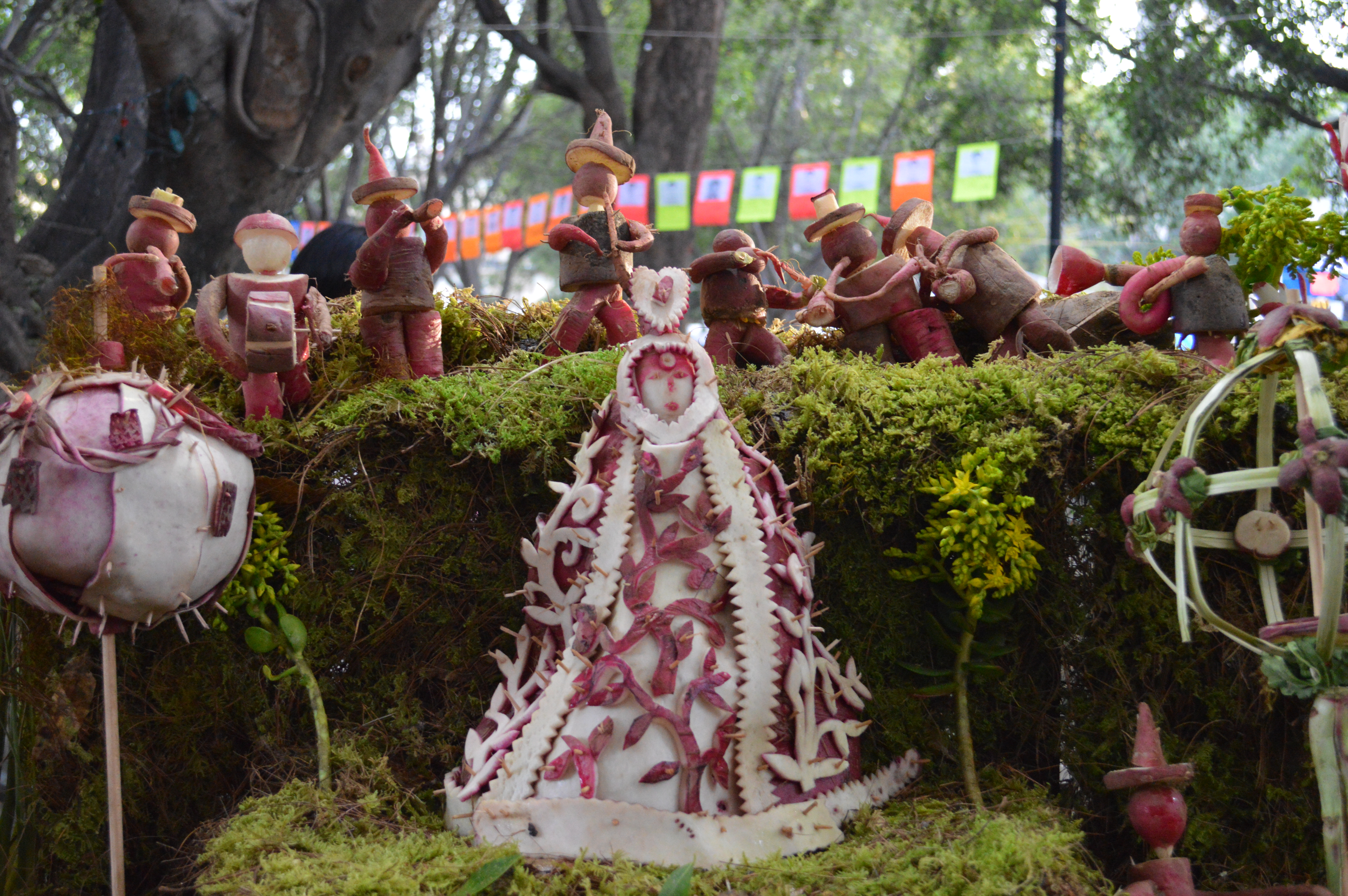 "Oaxaca...vives en mi" by Angel Damian Lopez Romero at the 2014 Noche de Rabanos in the city of Oaxaca, Mexico